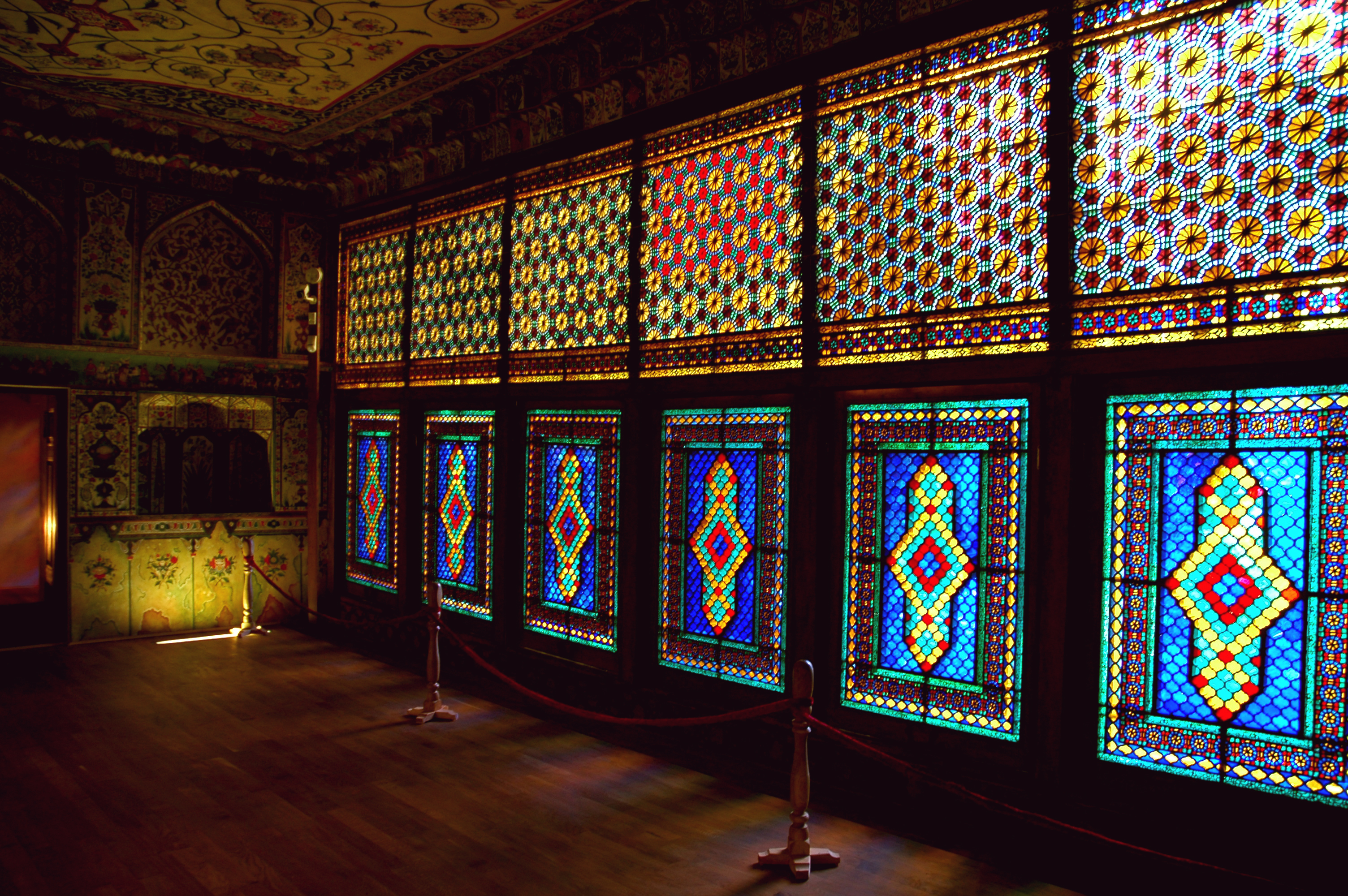 Shaki khan palace